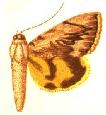 PLATE CCII.